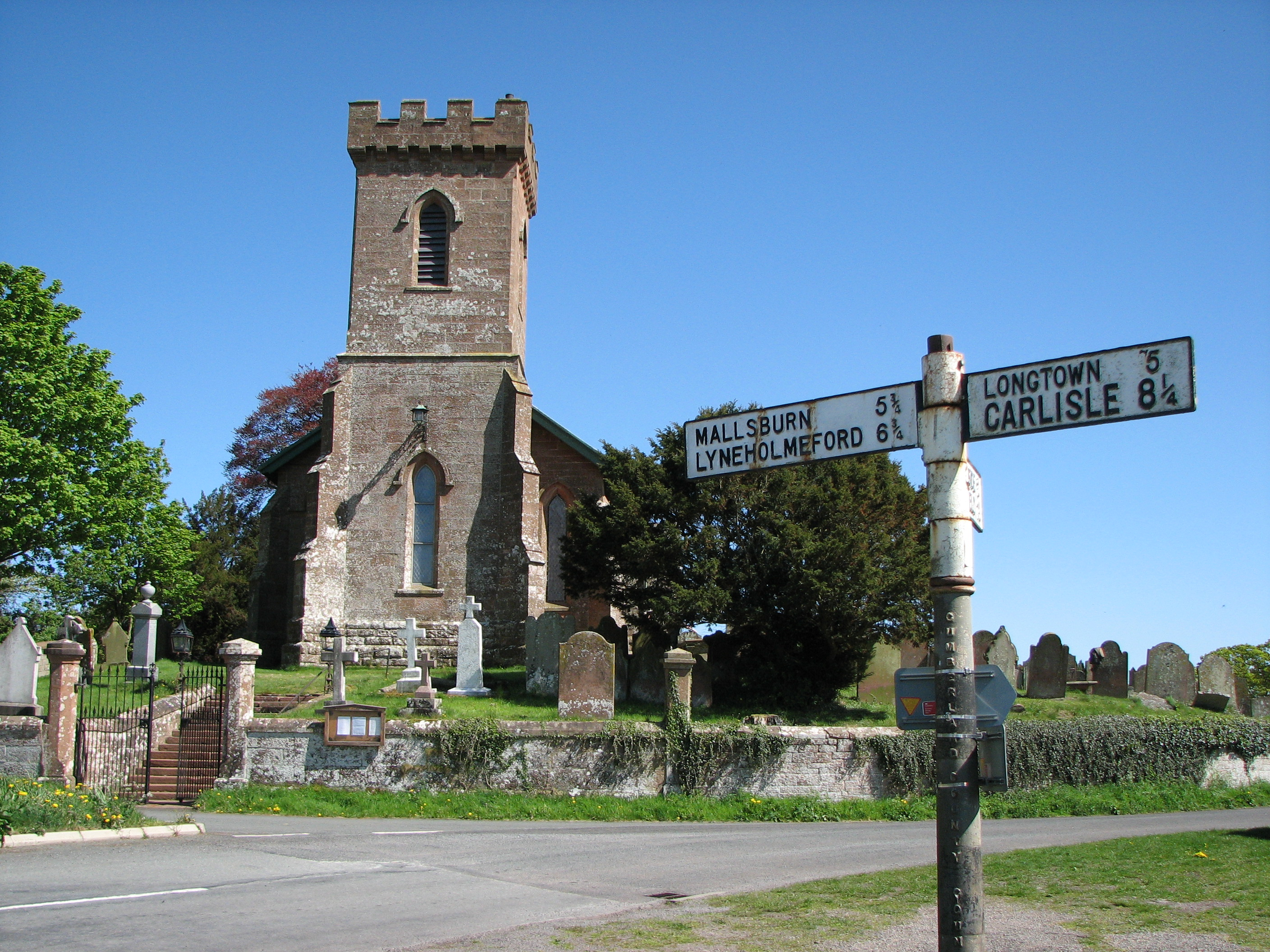 Reivers Cycleroute England April 2007 Westlington